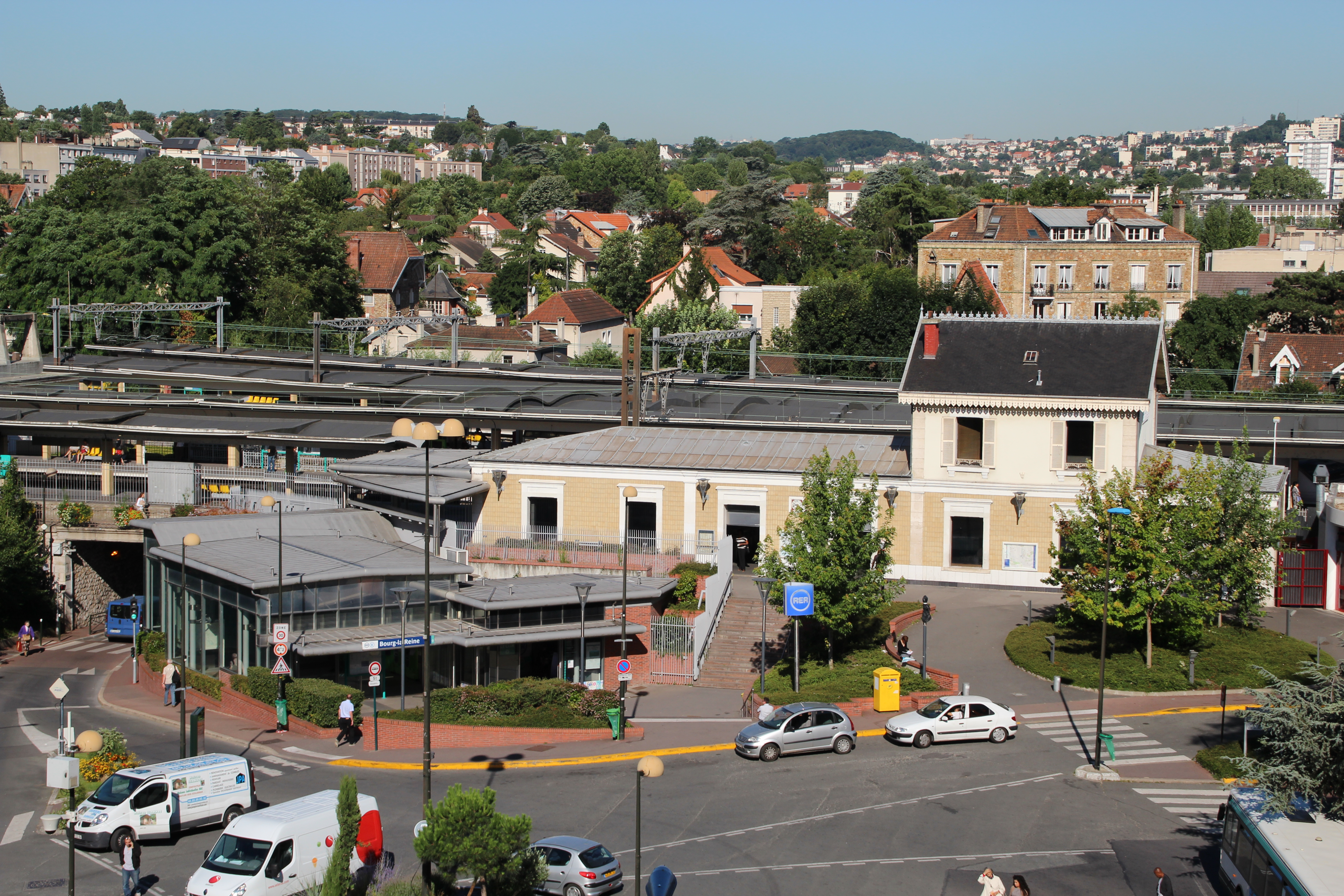 View of Bourg-la-Reine, France.